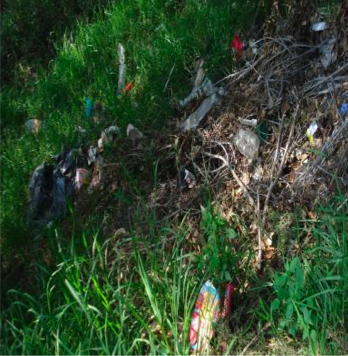 Tiraderos de residuos sólidos humanos